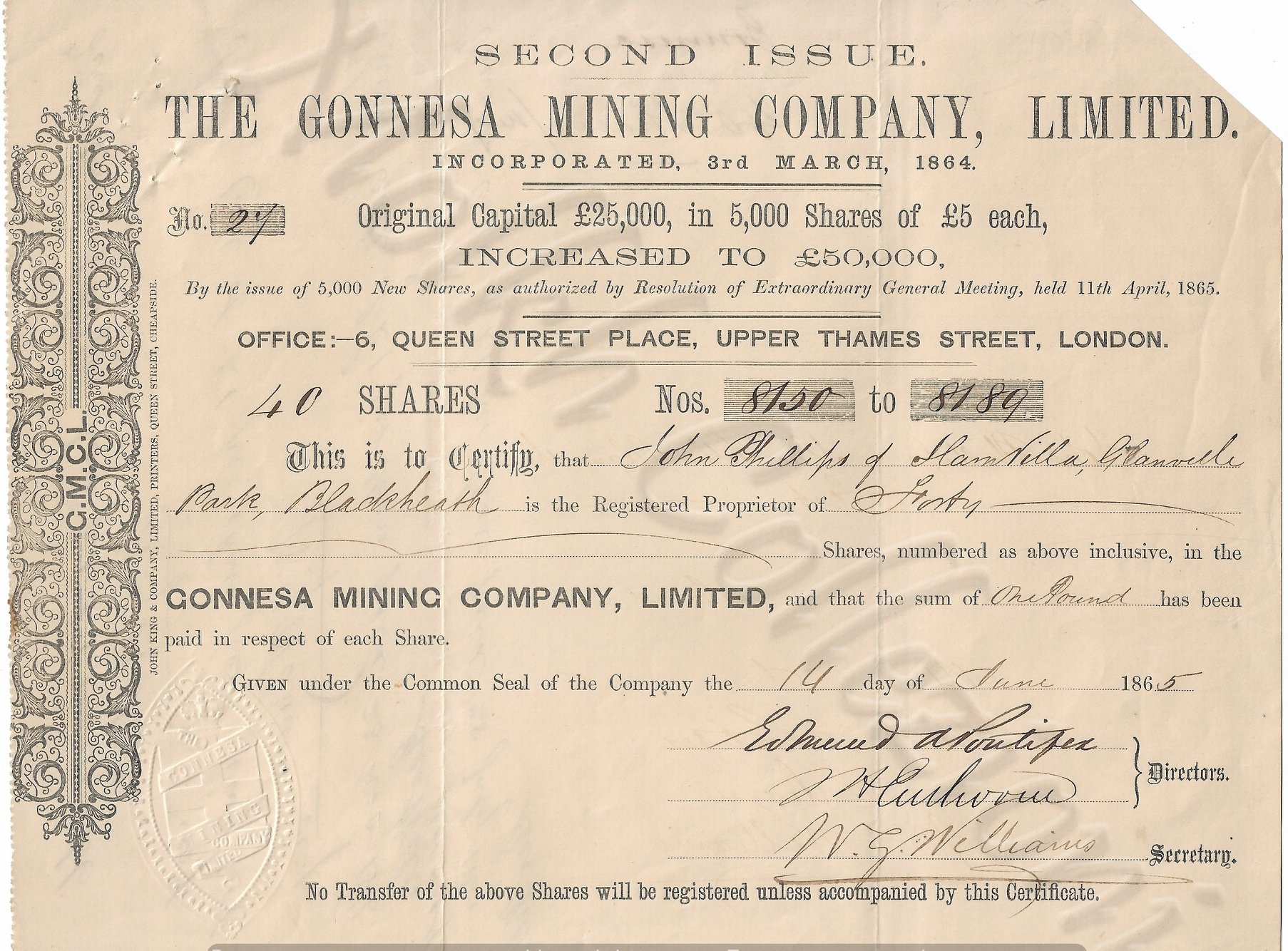 share of Gonnesa Mining Company Limited